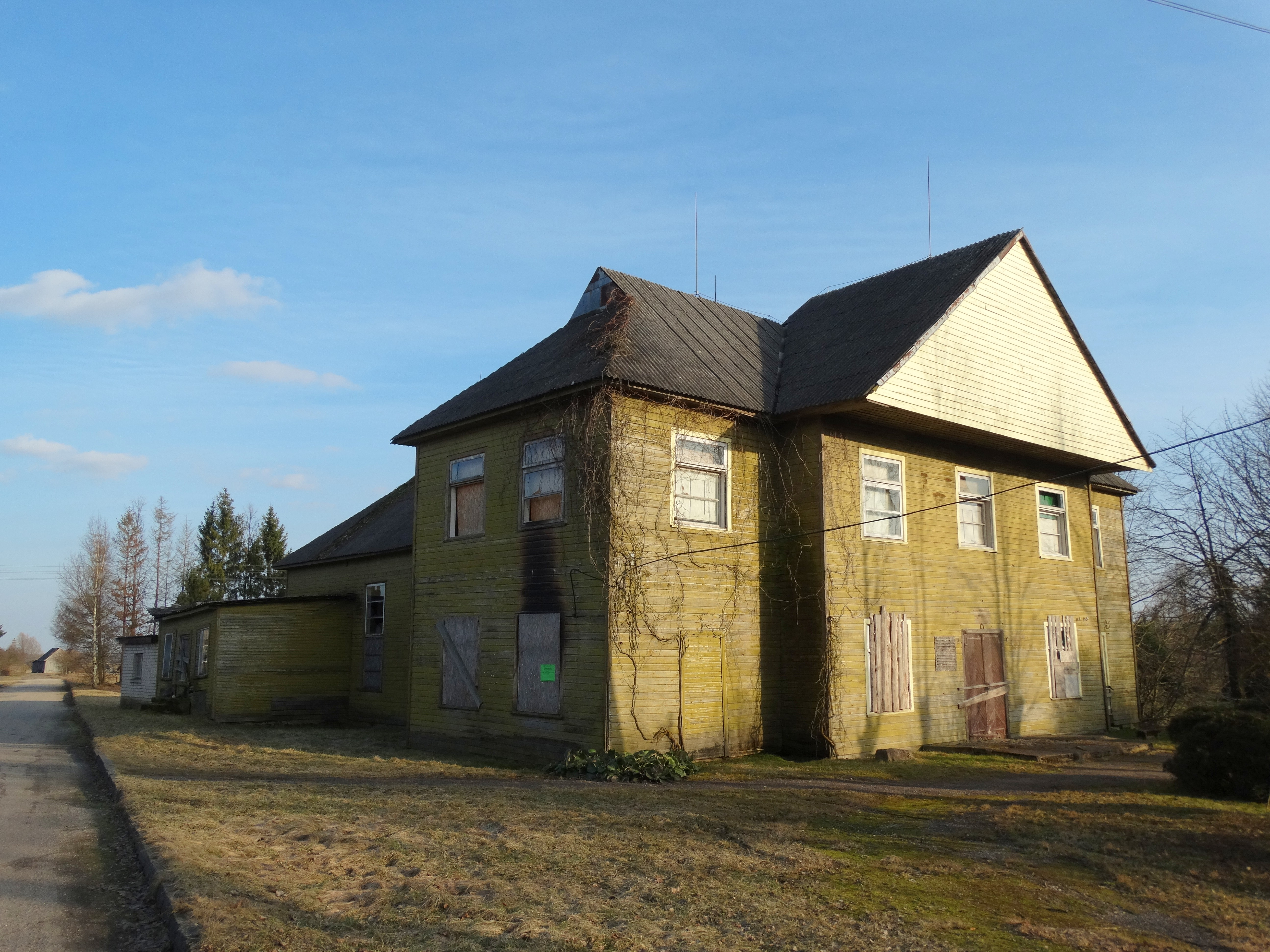 Šimkaičiai, Jurbarkas district, Lithuania